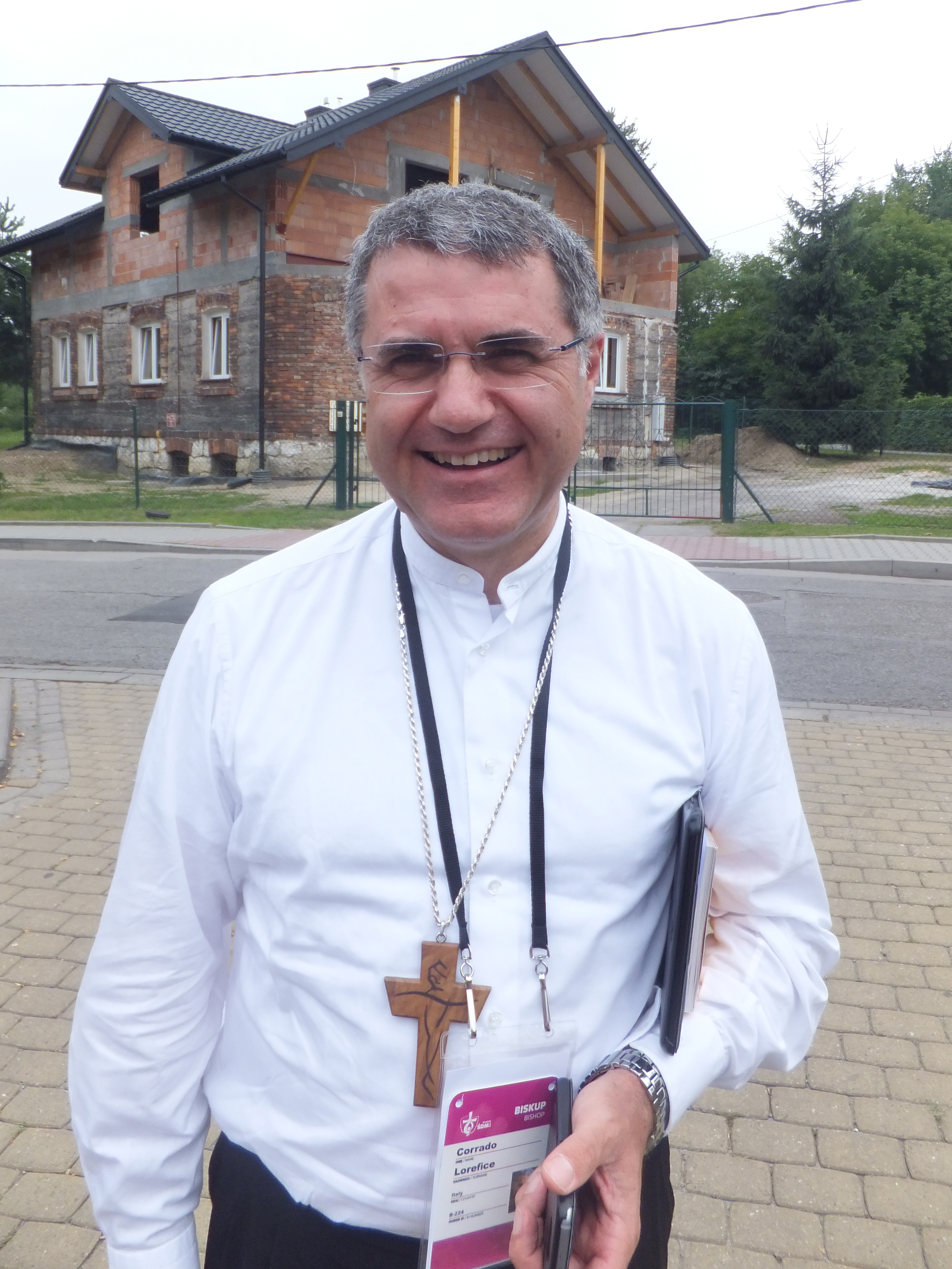 Corrado Lorefice, bishop of Palermo, at the World Youth Day 2016 in Cracow